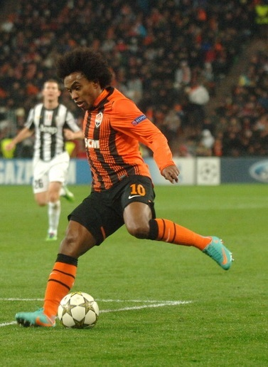 willian Borges da silva plyers match